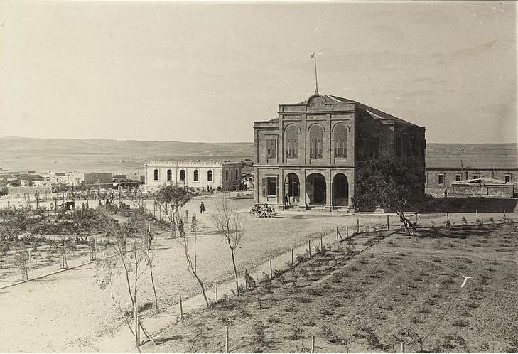 Photo of Beersheba Serai c1917